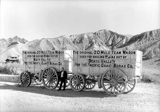 Two of the original Twenty-mule train Borax Wagons now on display at Furnace Creek Inn.